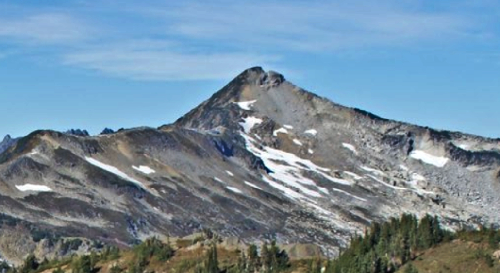 Chhardonnay Peak